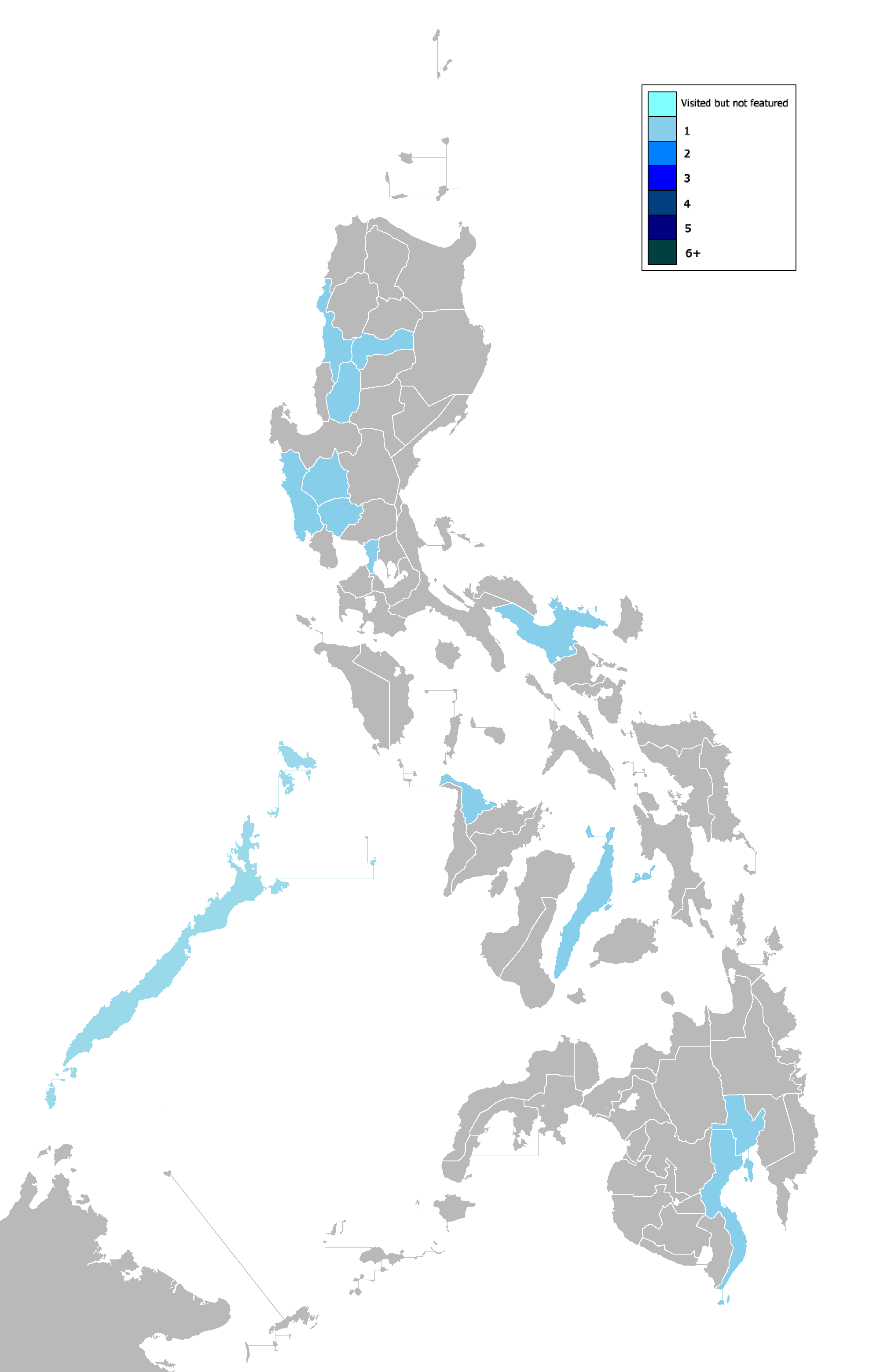 A Philippine map showing provinces visited by The Amazing Race Philippines. The map is based from TheCoffee and released to public domain.